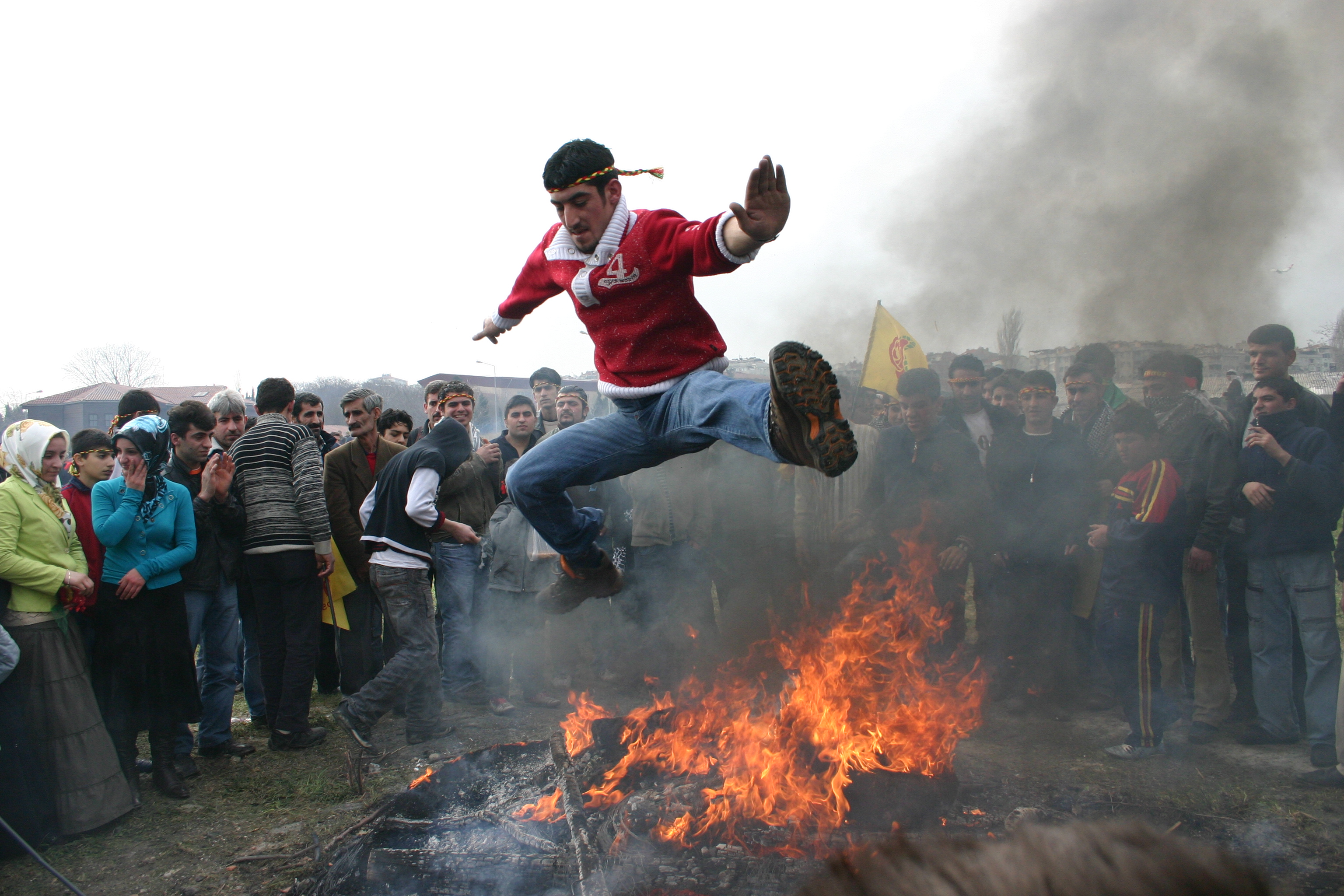 Newroz celebration in Istanbul. Photo by Bertil Videt 2006.